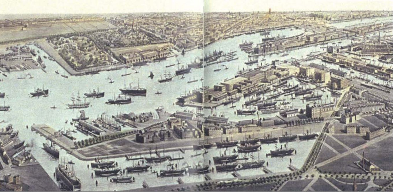 Panorama van Rotterdam door E. Hesmert, 1904